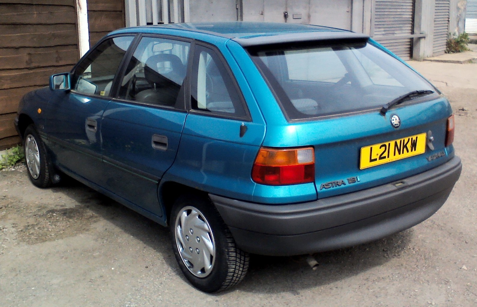 These are still very common but most look pretty tired, this one was looking very tidy for 20 years old